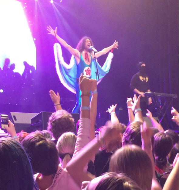 NSP on stage at The Dallas Bomb Factory, August 12th 2018.